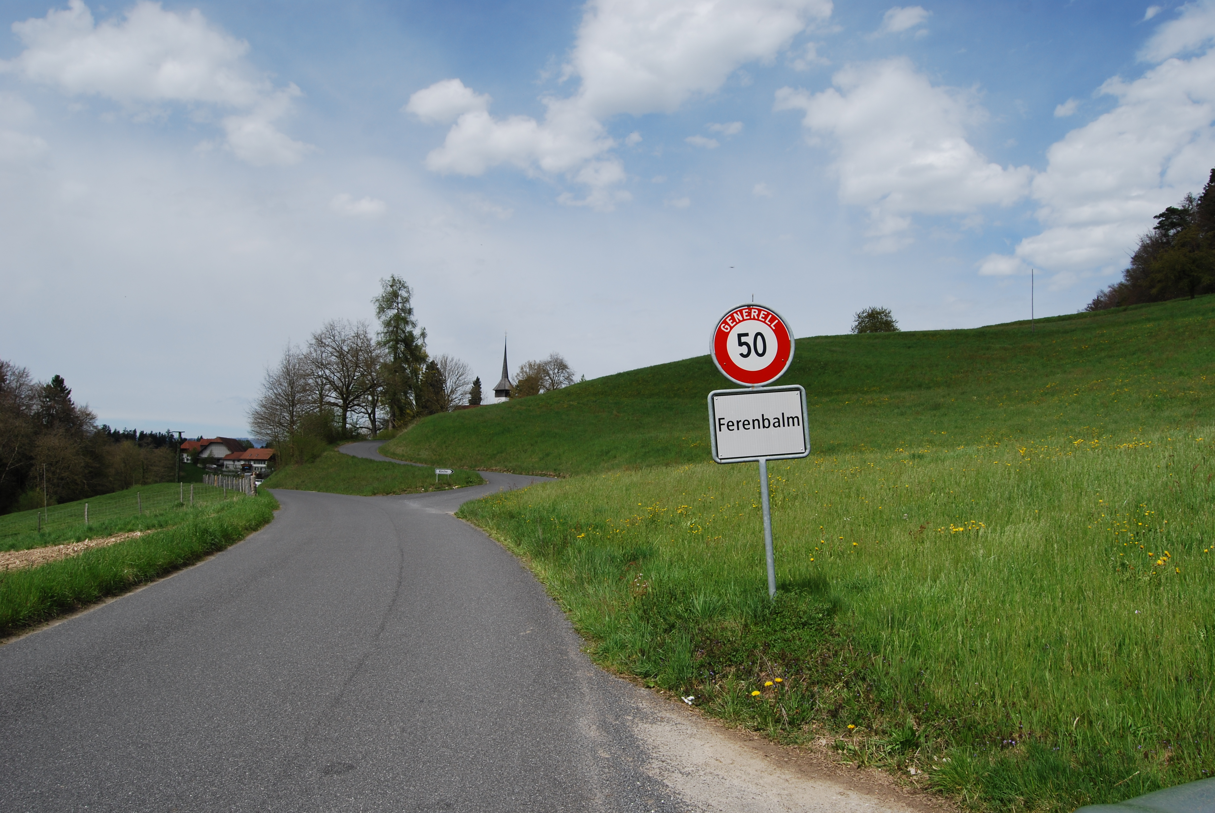 Ferenbalm, canton of Bern, SwitzerlandEsperanto: Ferenbalm, Kantono Berno, Svislando